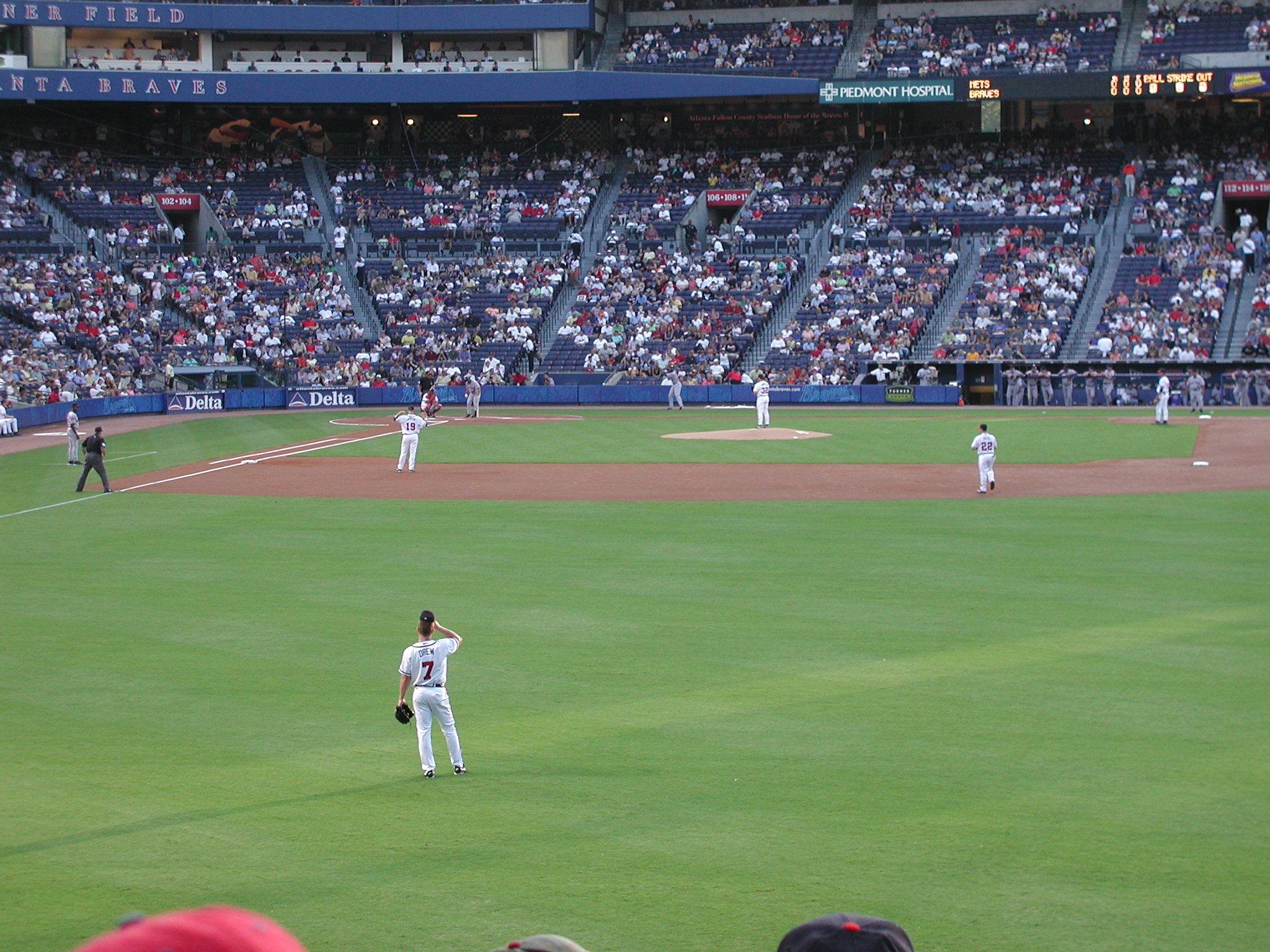 Braves vs. Mets. Atlanta 3, New York 1.